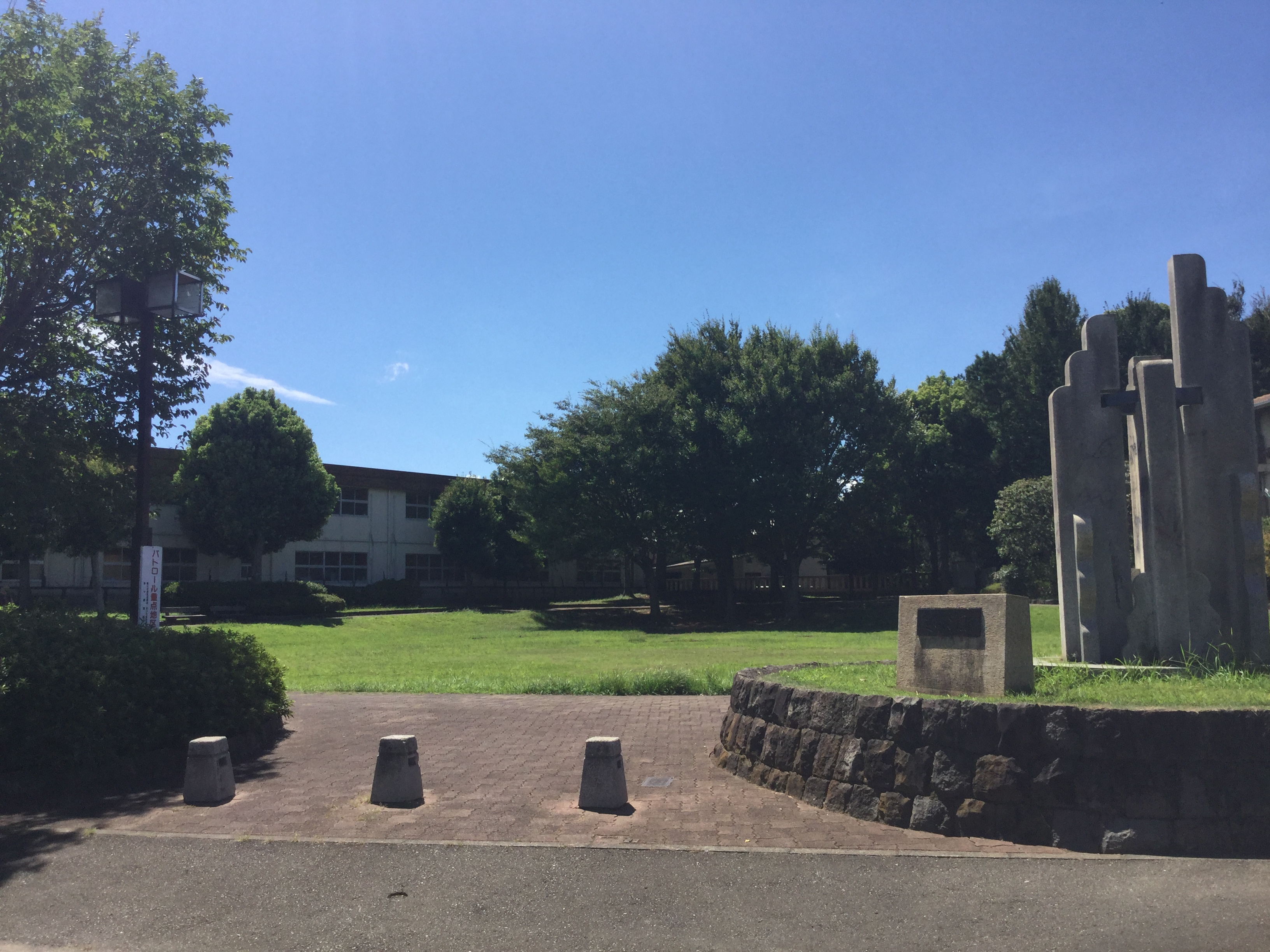 The Okada ruins in Kanagawa,japan